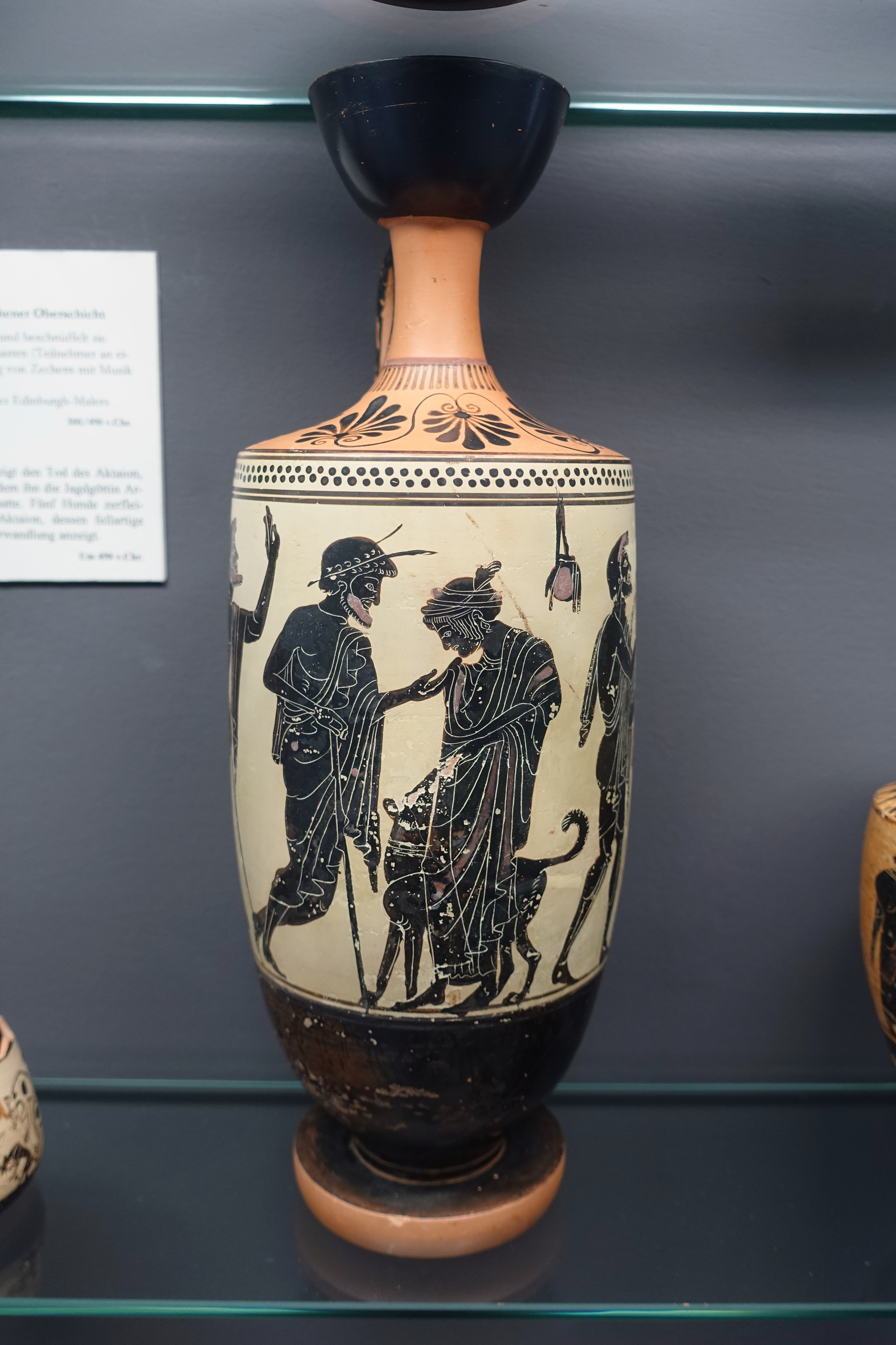 Exhibit in the Martin von Wagner Museum - Würzburg, Germany.